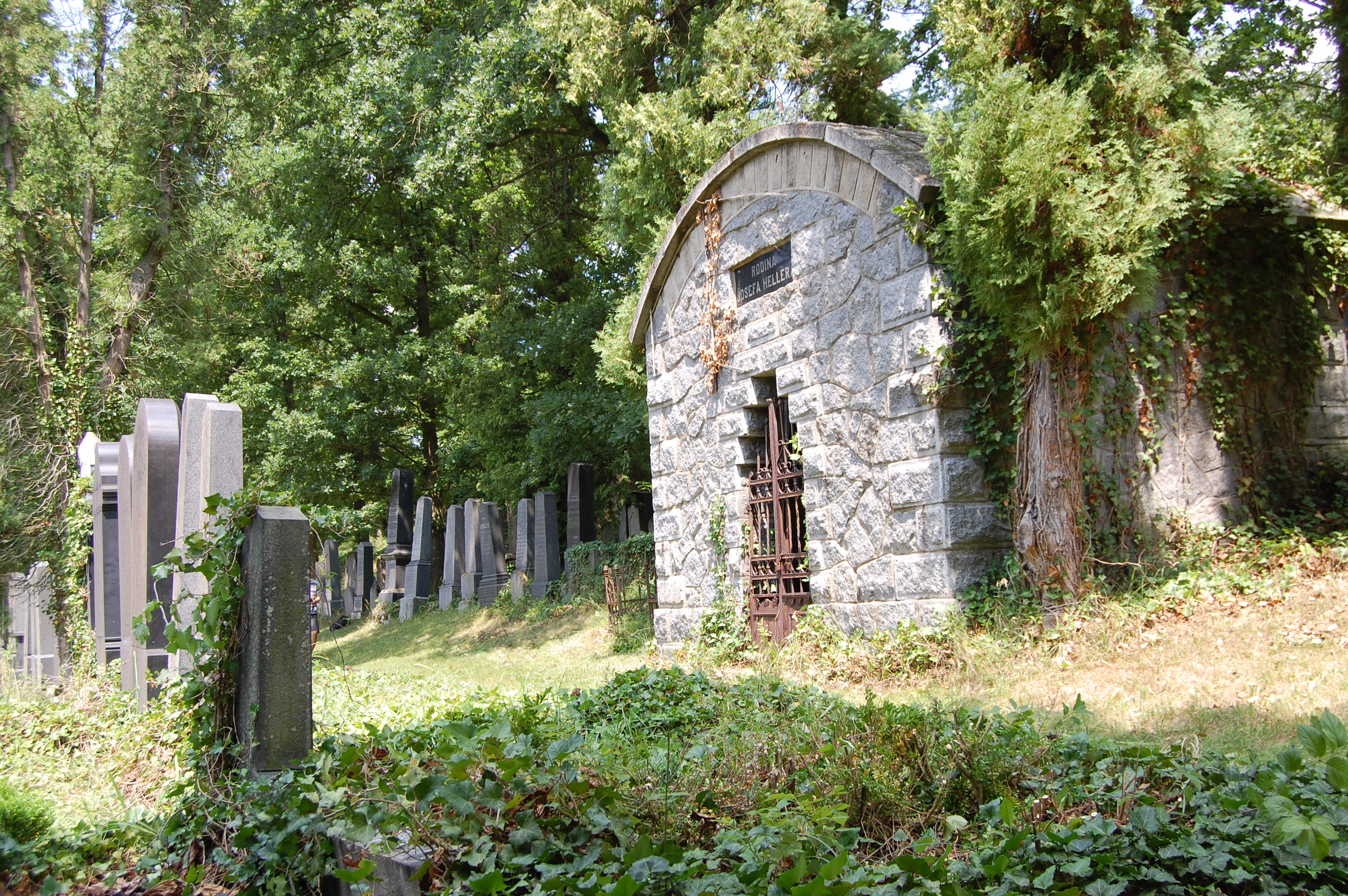 Jewish cemetery in Kosova Hora Česky: Židovský hřbitov v Kosově Hoře